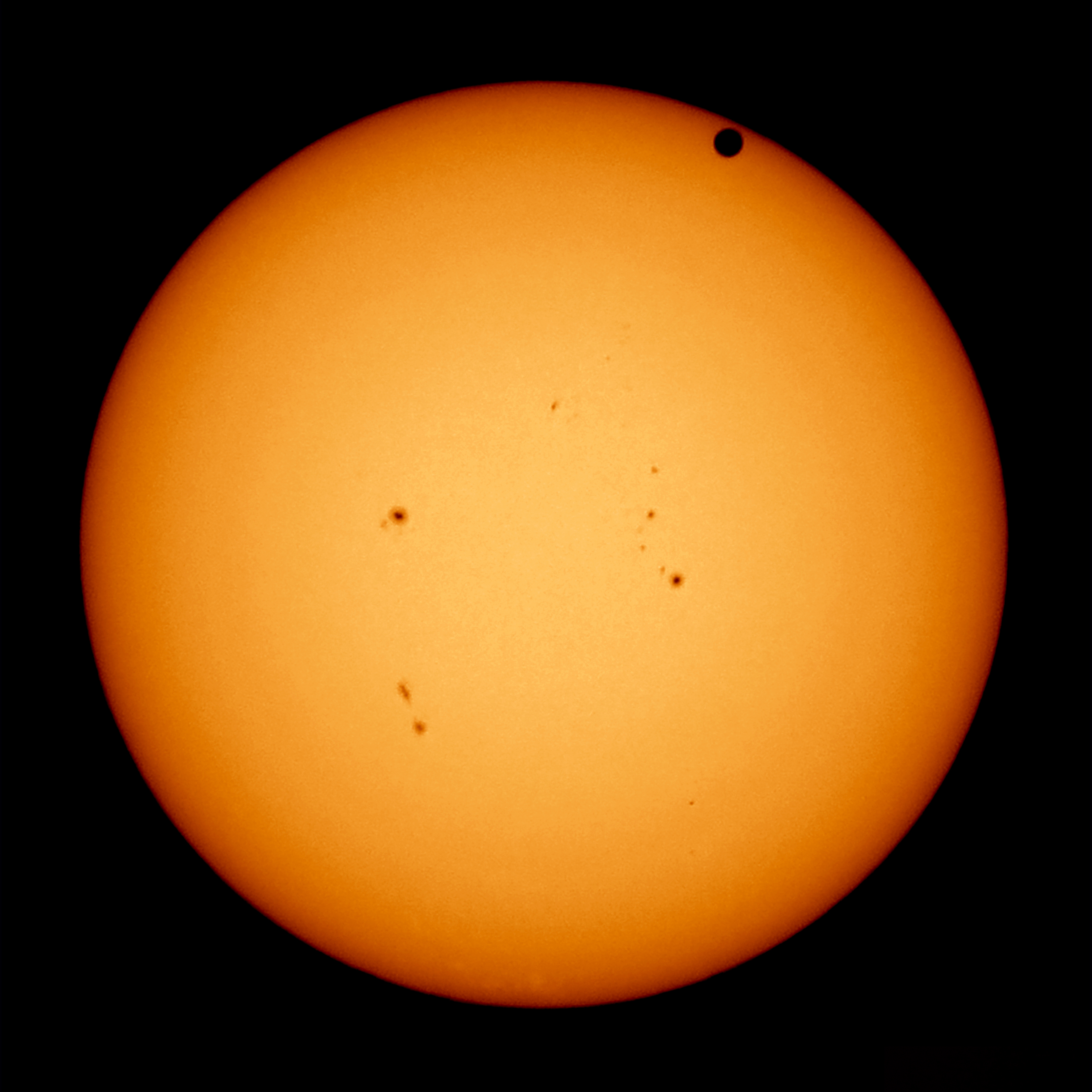 Transit of Venus.The image was taken with a home-made solar filter from baader solar film. The camera was placed on a very steady tripod that is operated by using a remote control. A few consecutive shots were stacked, using freeware RegiStax 6 Never look at the sun directly. You may go blind. Here is a video of the transit made by NASA. Enjoy!